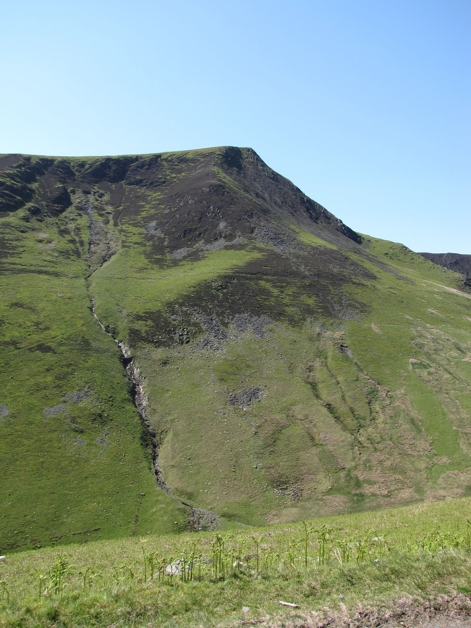 Lonscale Fell in the English Lake District seen from the Glenderaterra valley.